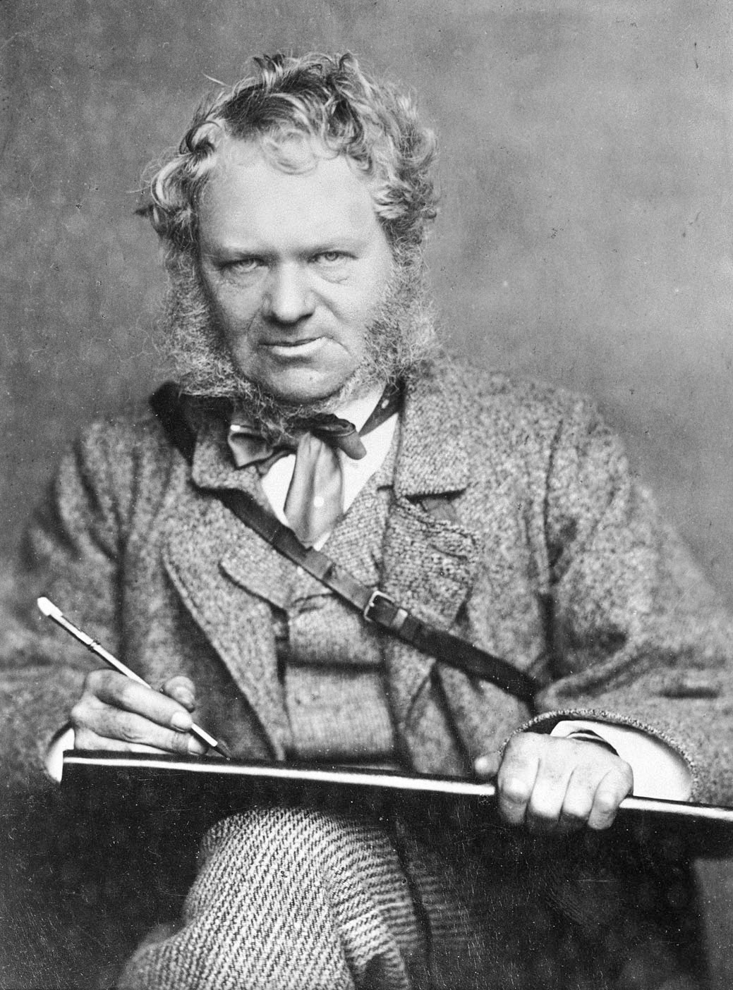 J.C. Watkins: Portrait of Sir Edwin Landseer (1802–1873), 19th century